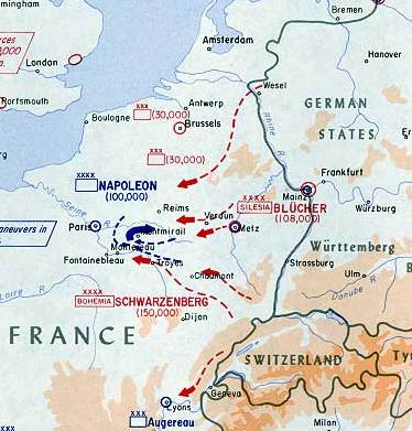 Strategic Situation of Western Europe, 1814